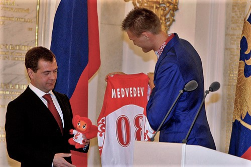 GRAND KREMLIN PALACE, MOSCOW. Meeting with members of Russia’s Olympic Team. On the right, captain of the Russian basketball team Andrei Kirilenko.